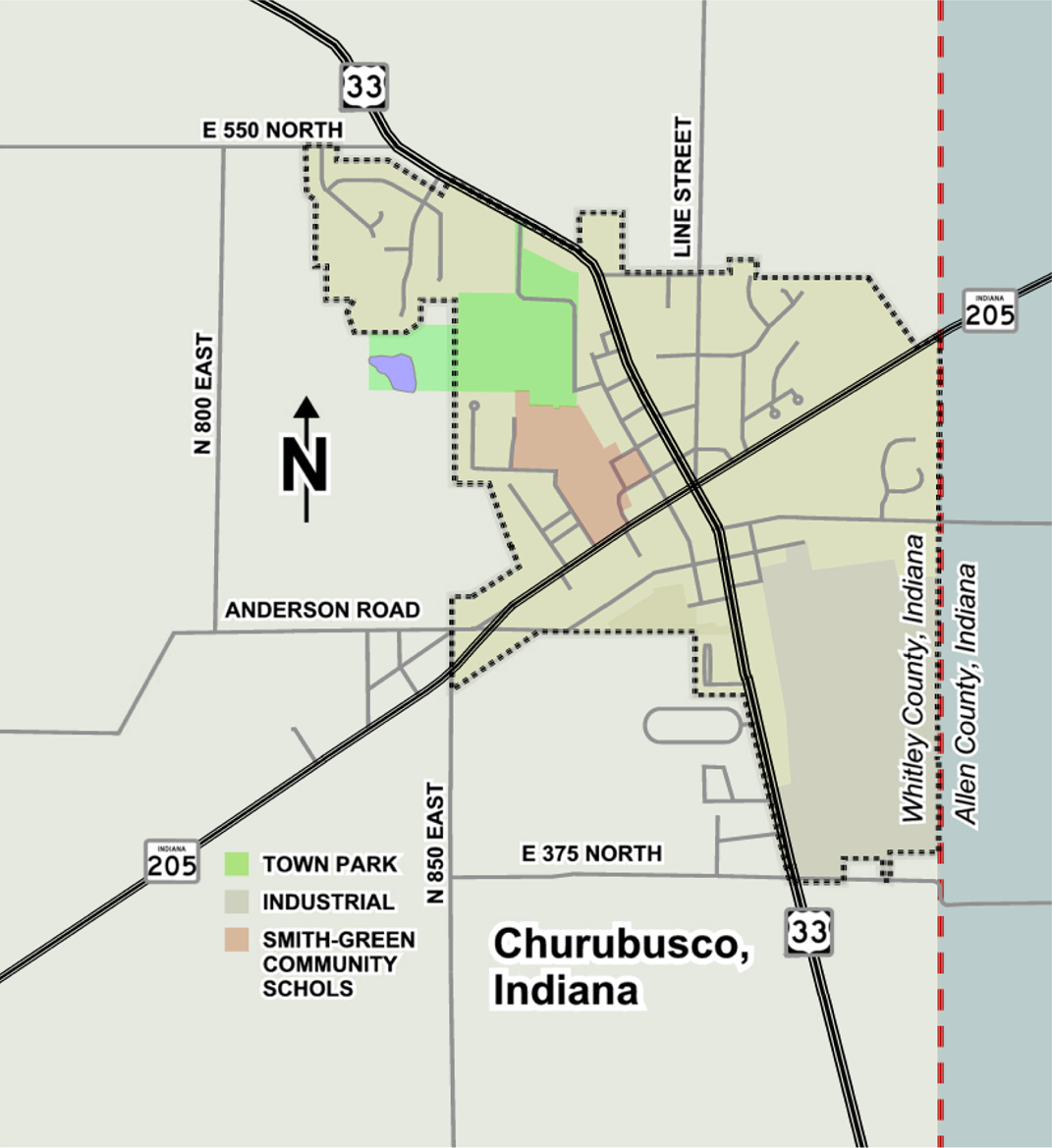 Map of Churubusco, Indiana. Created using Microsoft PhotoDraw.